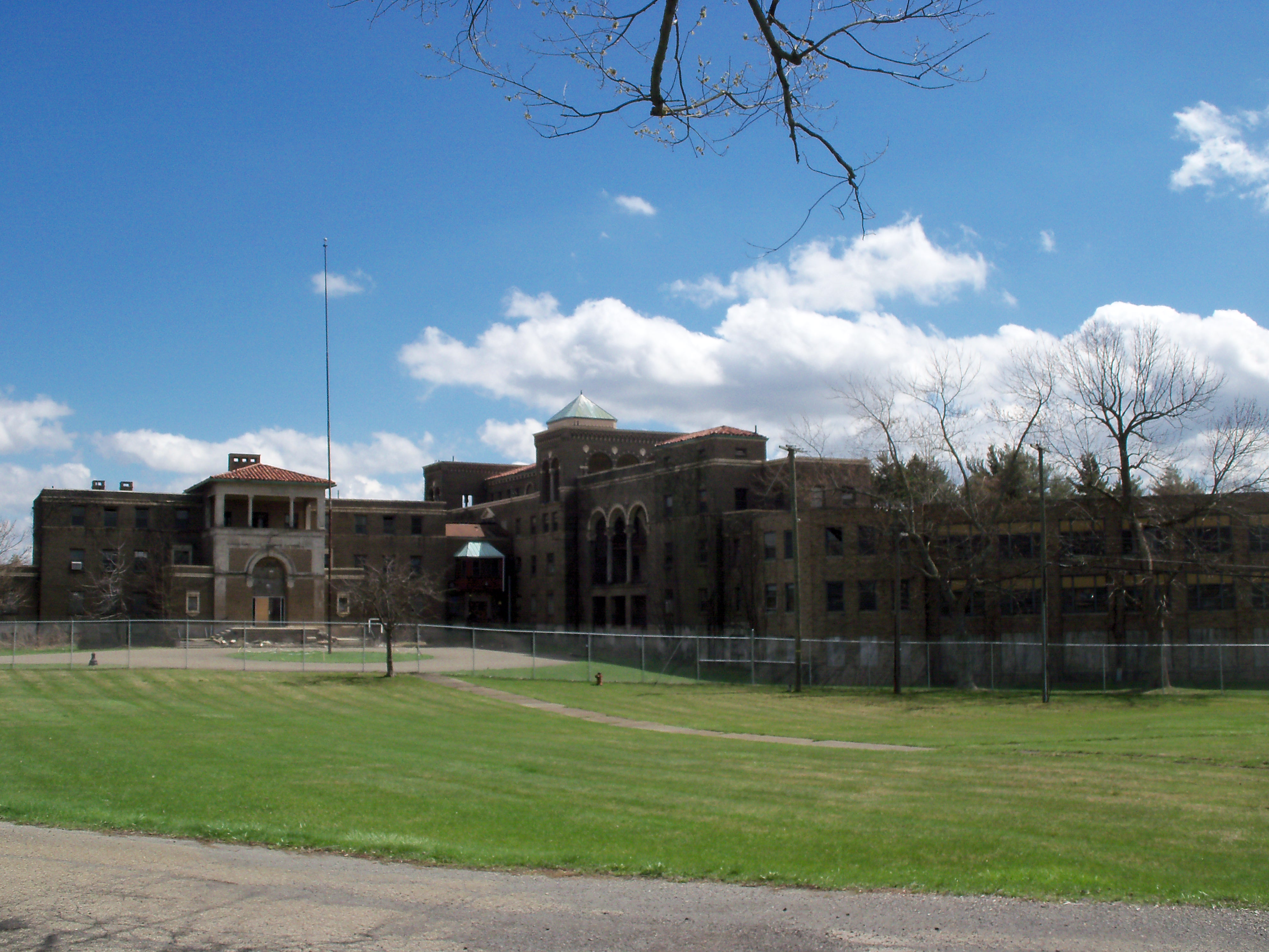 front entrance of old TB hospital in Ohio